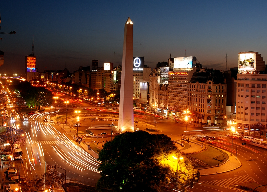 9 de Julio Avenue. Buenos Aires, Argentina.